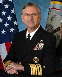 VADM William Douglas Crowder from [1]